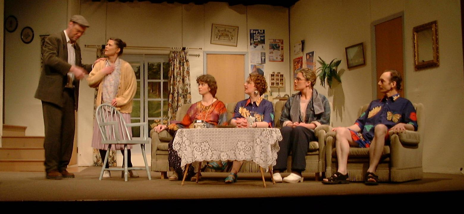 icelandic theatre, Leikfélag Rangæinga